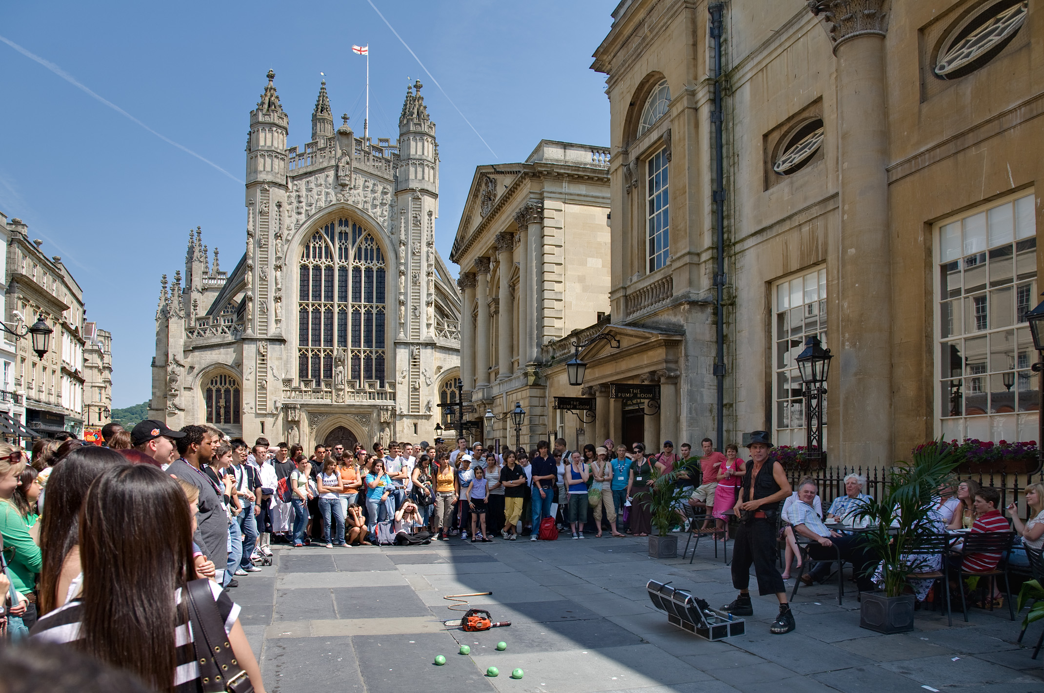 Bath Abbey and Entertainer. Bath is very popular with tourists, particularly in the summer, and the city bustles with life. An entertainer performs for the crowd in front of the Bath Abbey and to the right, the Roman Baths. Taken by myself with a Canon 5D and 24-105mm f/4L IS lens.